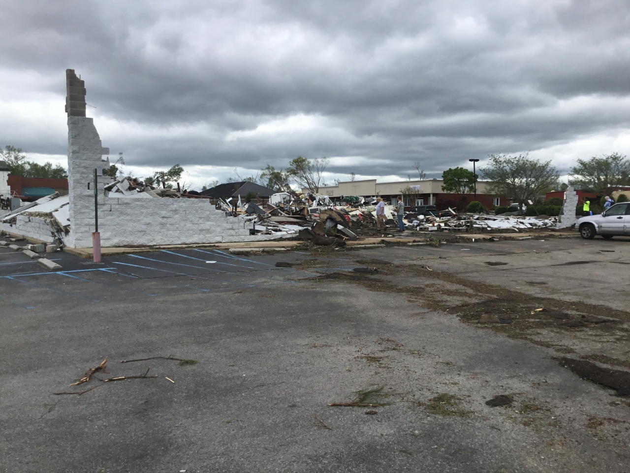 EF3 damage to an auto-parts store in the Bella Vista Acres neighborhood of Chattanooga, Tennessee.